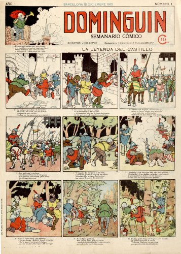 First issue of Dominguín, Spanish comics magazine from 1915